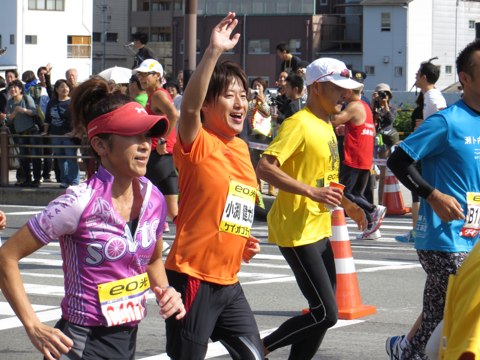 小渕健太郎（コブクロ） / Kentaro Kobuchi (Kobukuro) - Osaka Marathon 2013 昨年の大阪マラソンで こぶちゃん撮れたのは、本当にオマケ＾＾；